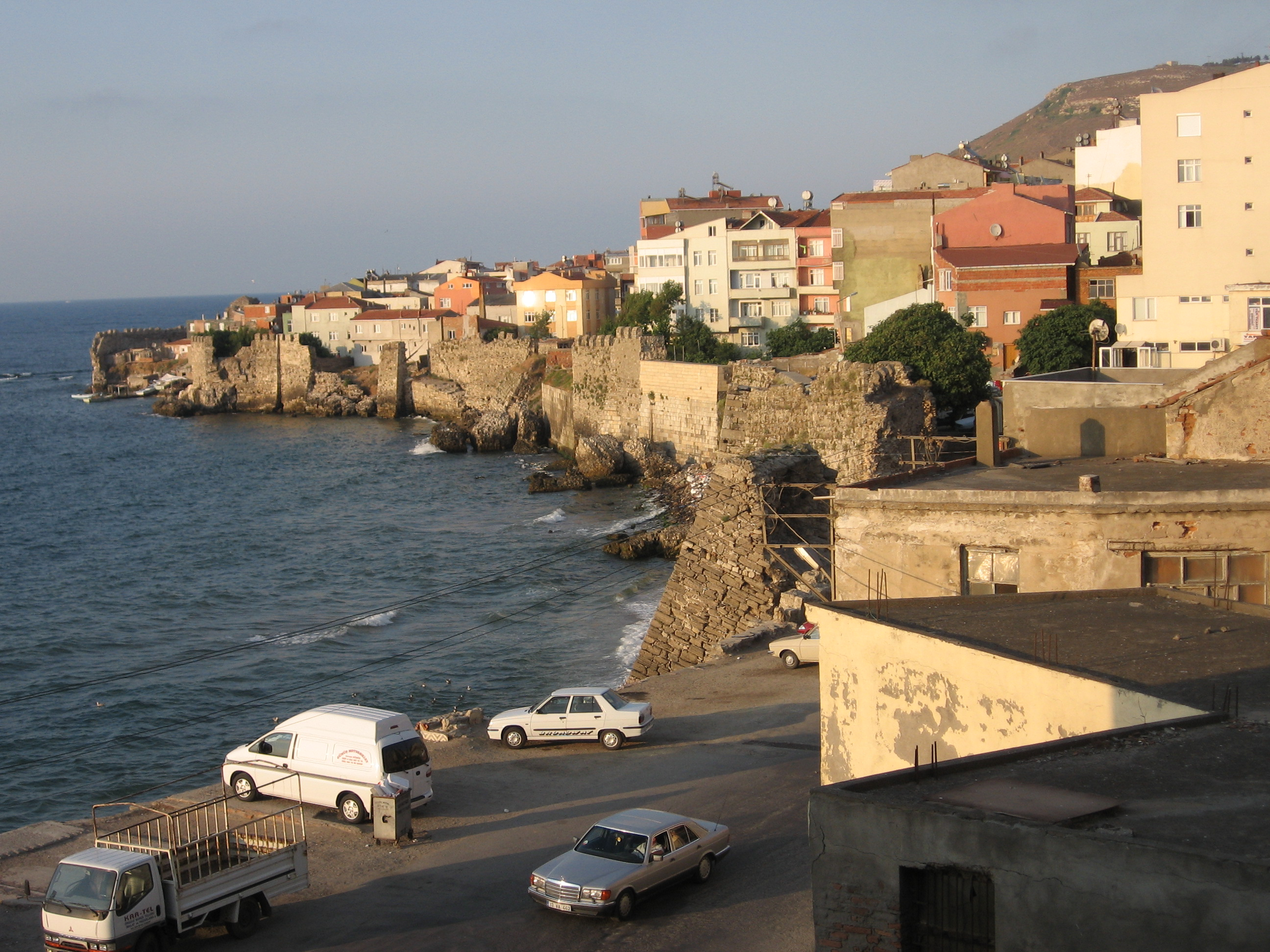 Sea wall in Sinop, Turkey